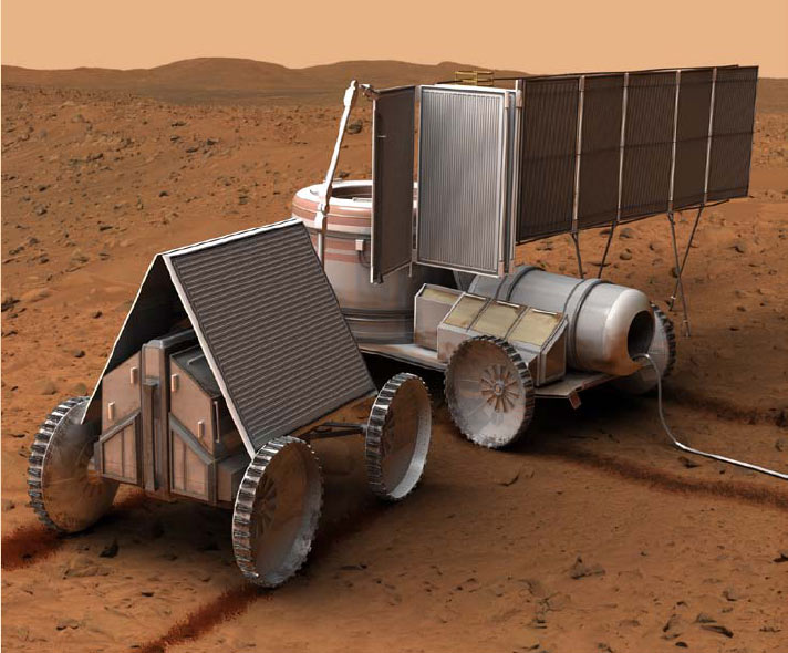 Mars surface power systeme (NASA Human Exploration of Mars Design Reference Architecture 5.0) fev 2009